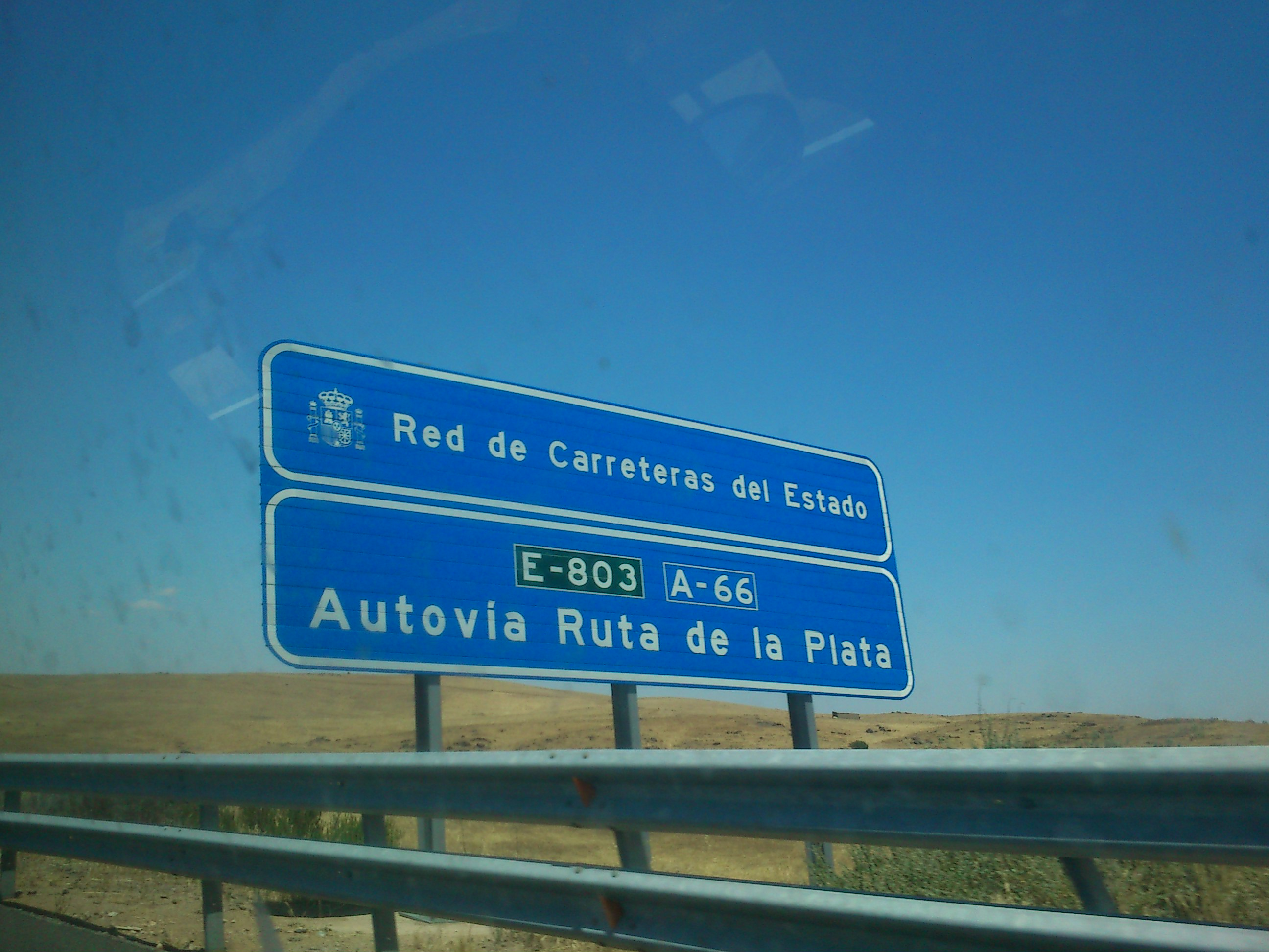 A road sing along the motorway E-803 mentioning it's nickname Ruta De La Plata (Route Of The Silver).